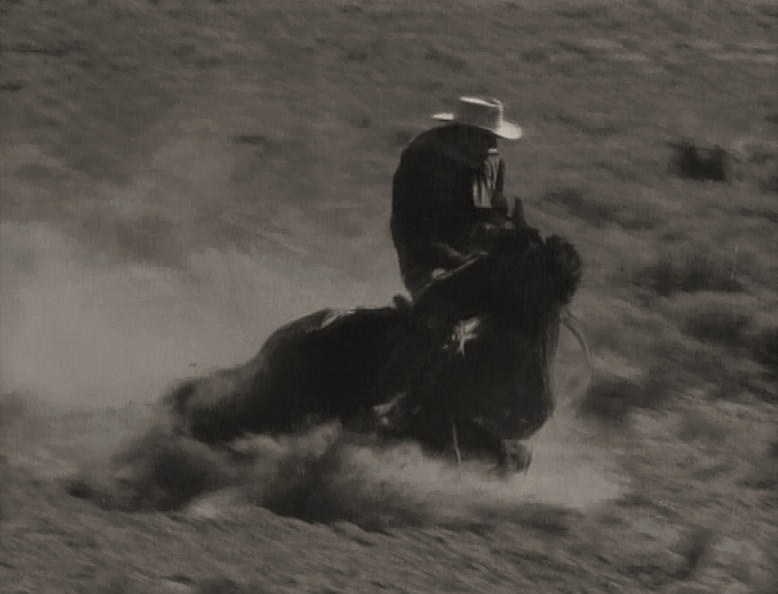 Chuck Roberson (John Wayne's stunt double) in Angel and the Badman - cropped screenshot